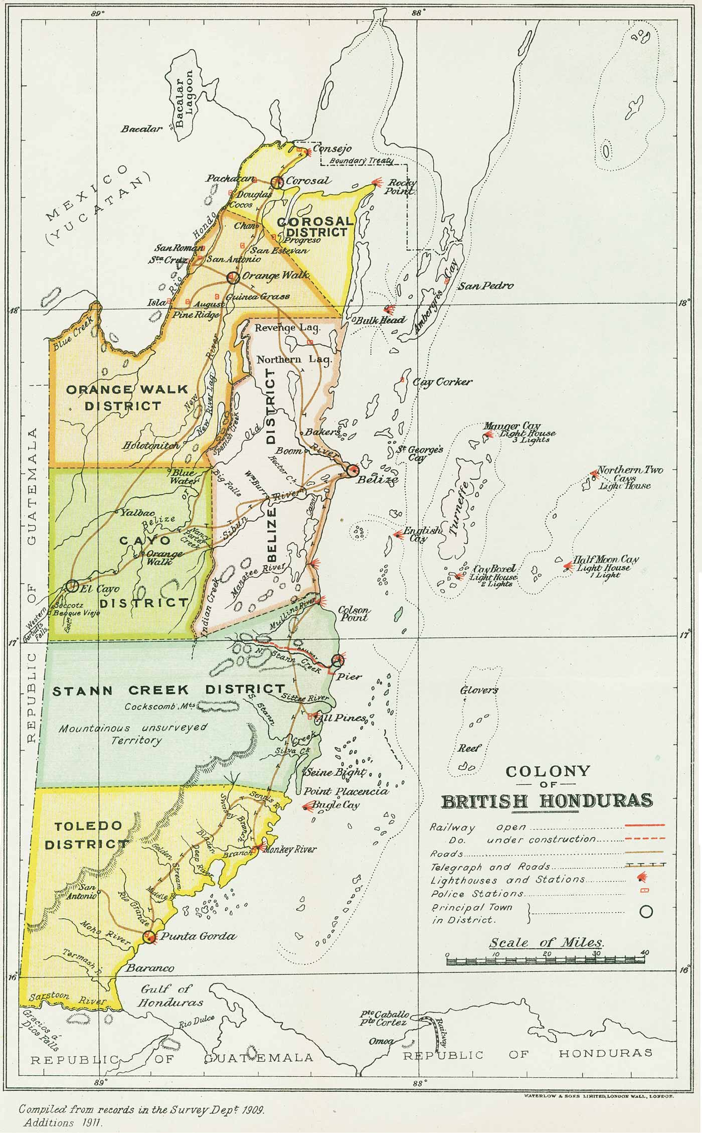 Coloured map of British Honduras (Belize) showing district borders and roads, printed by Waterlow & Sons, London, 1911, compiled from records in the Survey Dept., additions 1911.